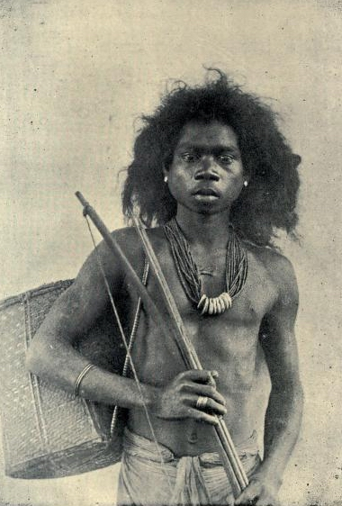 Kanikar man